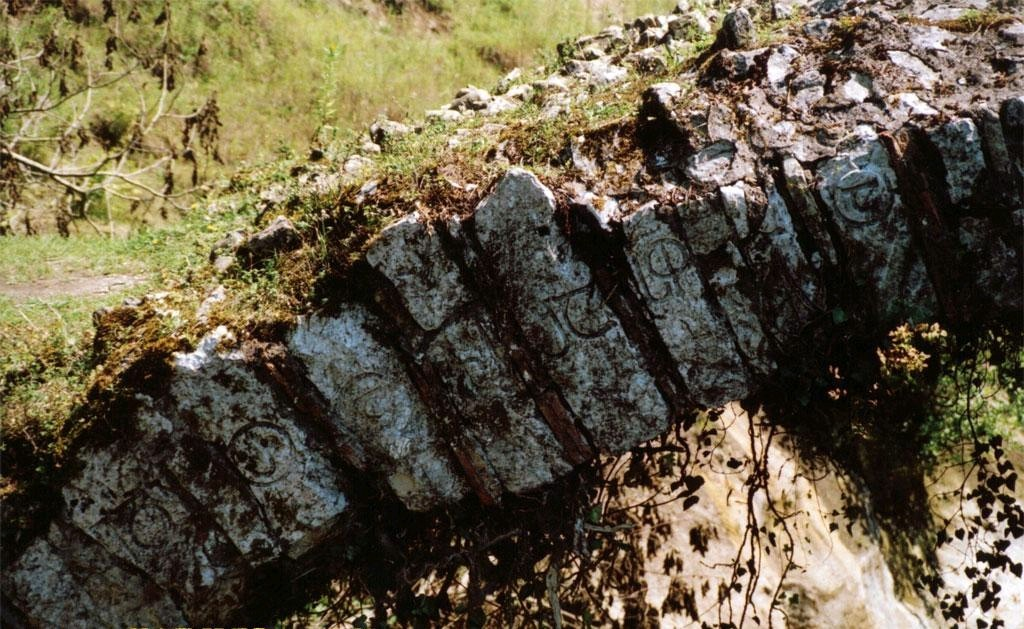 Inscription in Asomtavruli script on the Besletka bridge near Sukhumi, Abkhazia